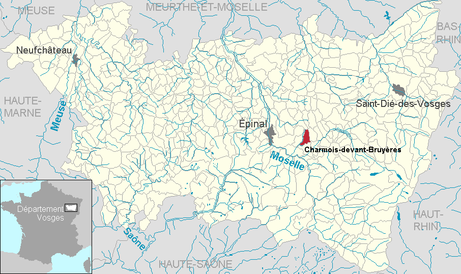 Charmois-devant-Bruyères in the department of Vosges, Lorraine, France